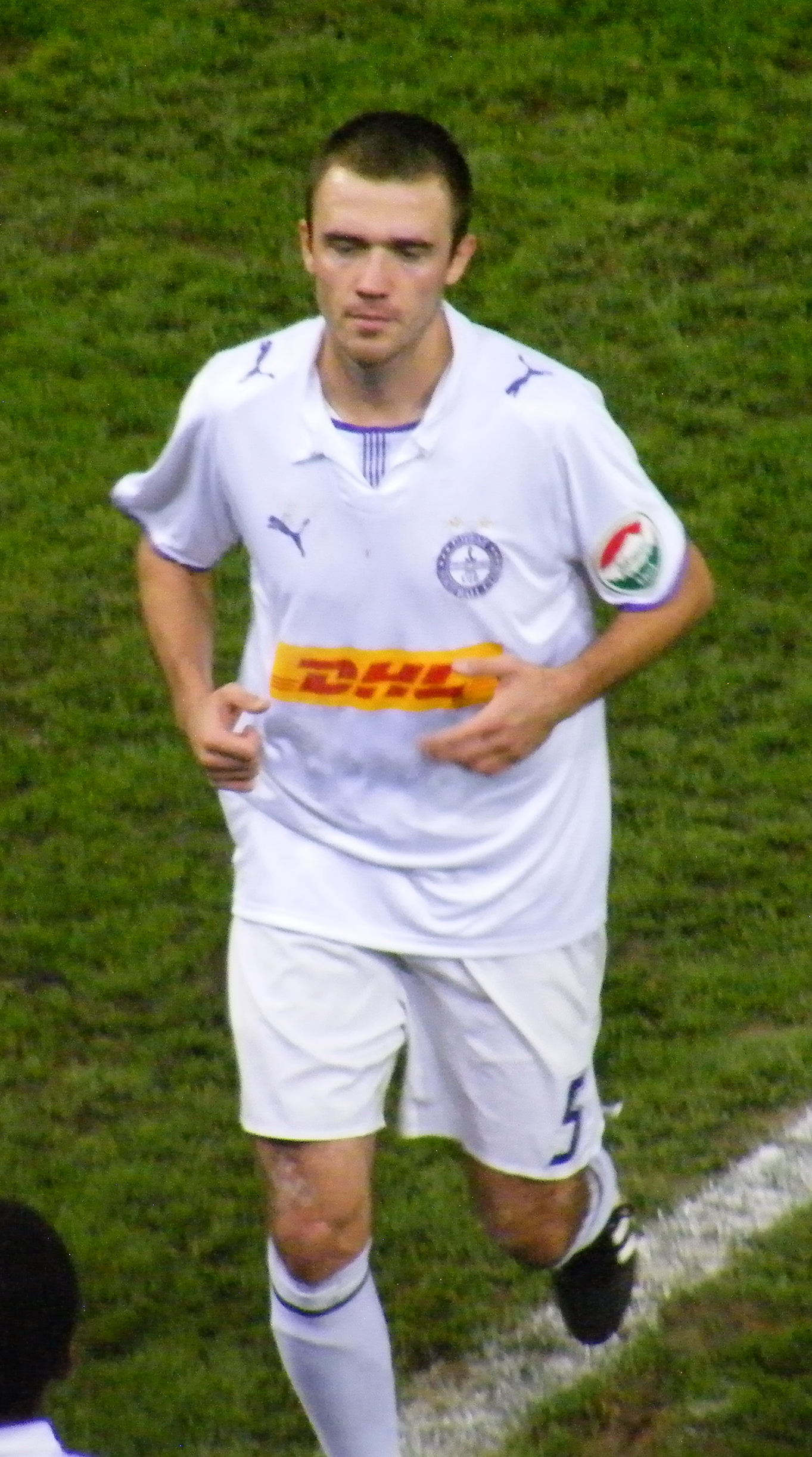 György Sándor Hungarian football player